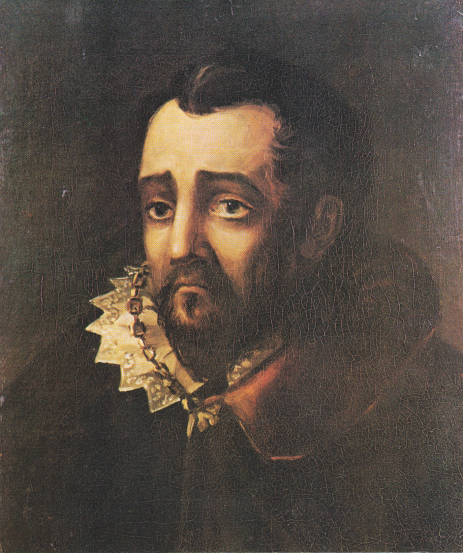 Gerzog_Lerma